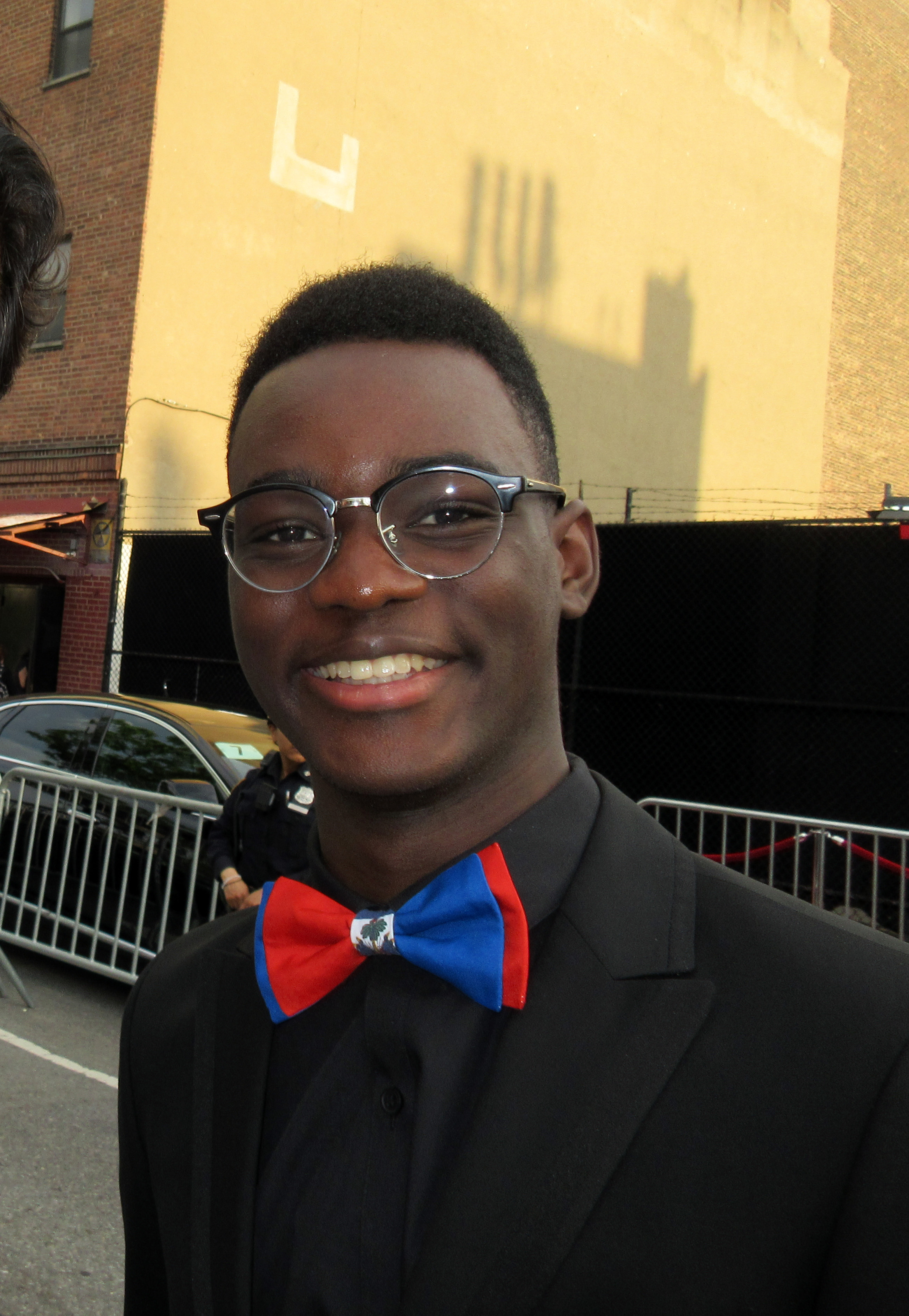 Star of When They See Us. NYC May '19.